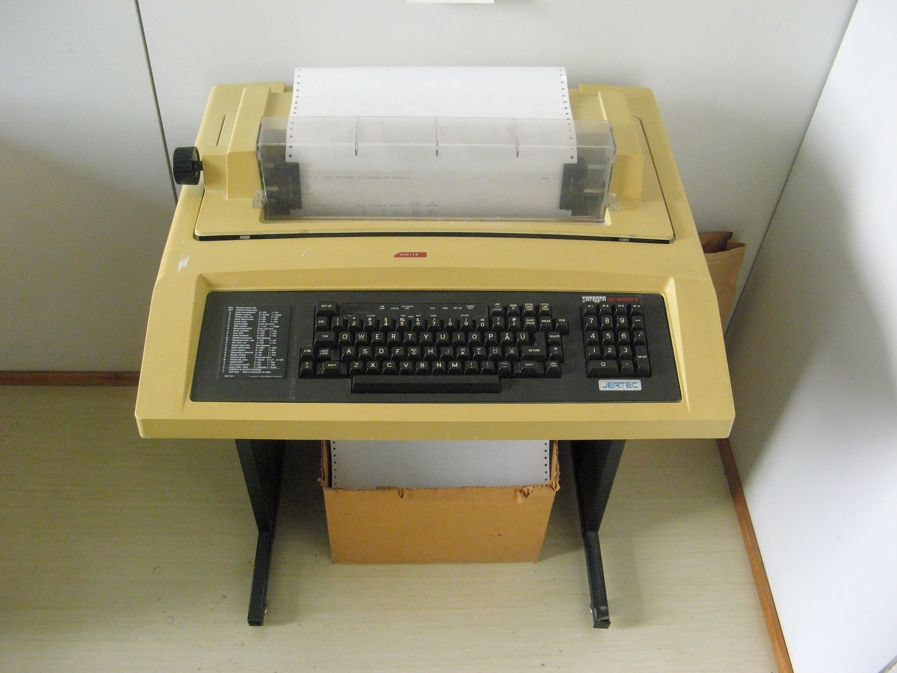 Computer terminal, hardcopy terminal, teletype: Digital Decwriter